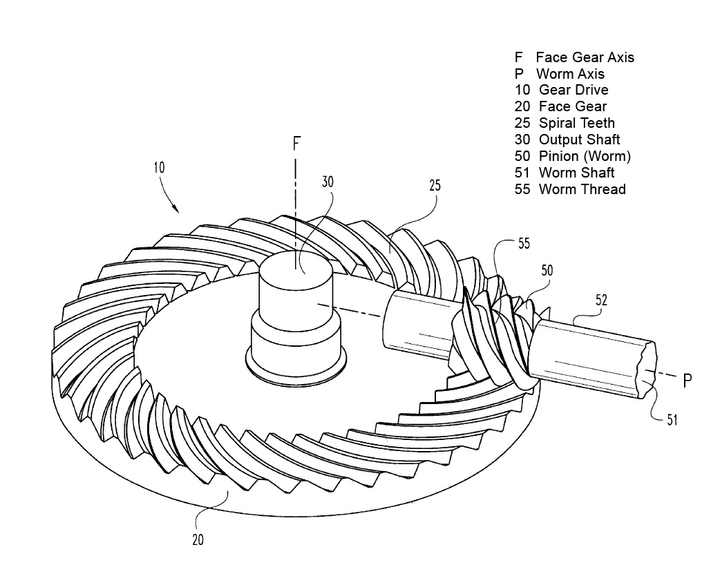 Face worm gear illustration from U.S. Patent 6,128,969 (2000), cropped, edited, annotated.